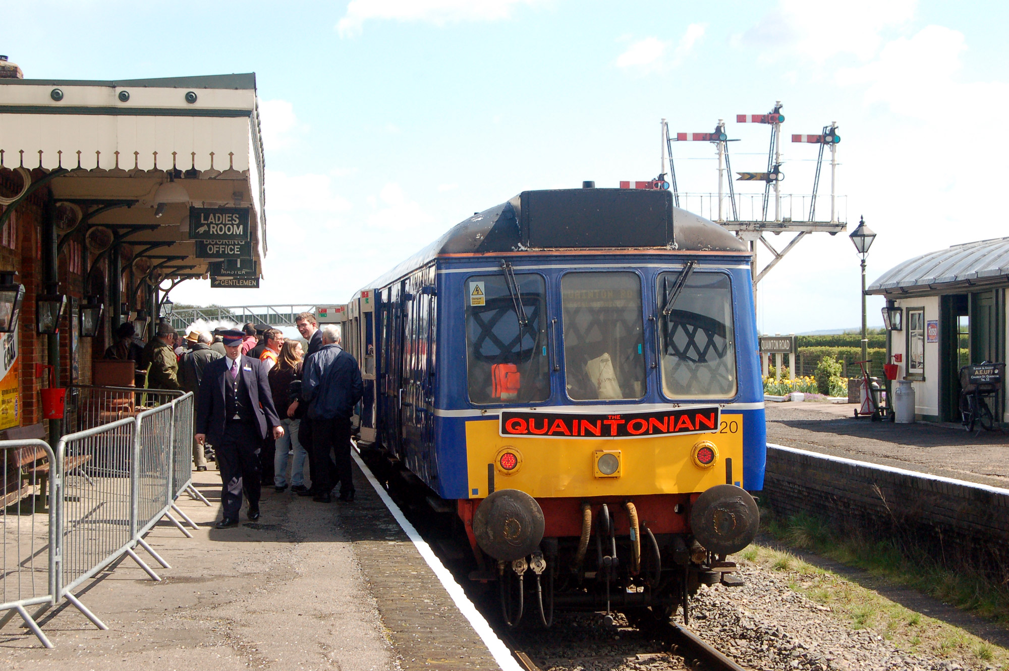 Chiltern Railways Class 121 diesel unit 121 020 stands at Quainton station, site of the Buckinghamsire Railway Centre. In 2003, Chiltern Railways refurbished "Heritage" DMU 121 020 (vehicle 55020) and painted it in Chiltern Railways blue livery. The vehicle is usually employed on the Aylesbury to Princes Risborough shuttle service. It is also used, as here, on special services visiting open days at Buckinghamshire Railway Centre.